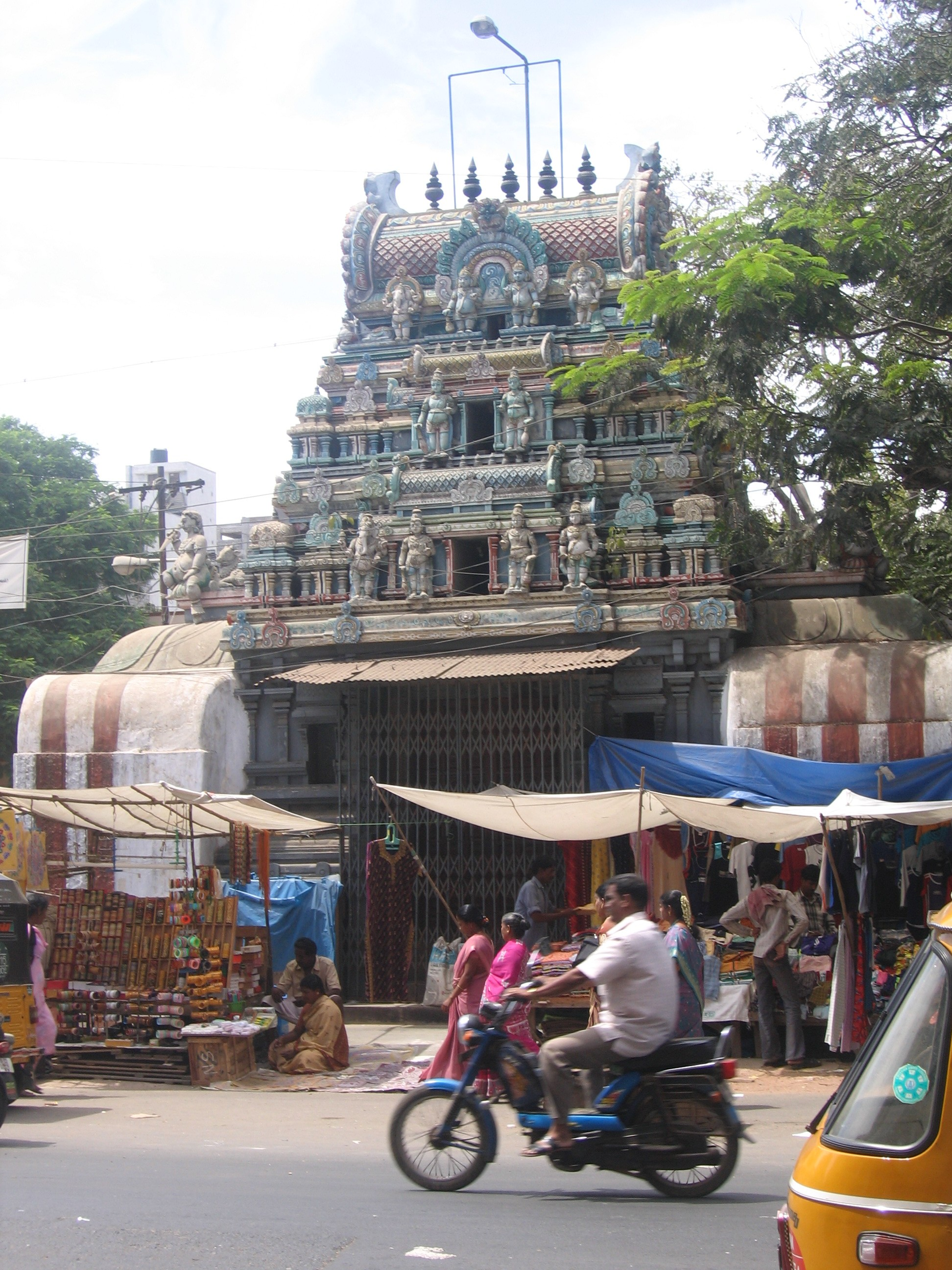 Shiva Vishnu Temple at T. Nagar, Chennai